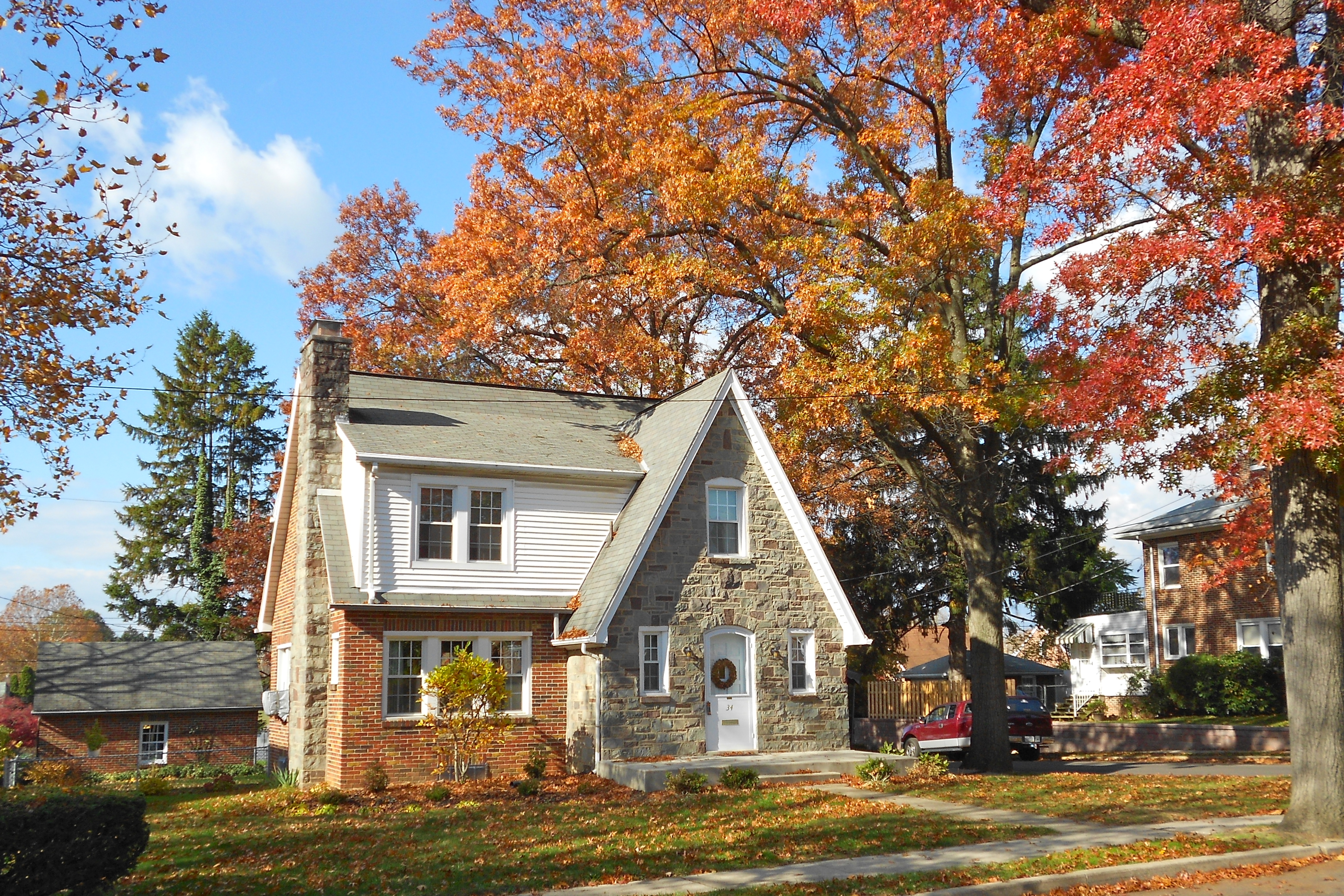 House in the East York Historic District listed on the NRHP on March 12, 1999. The district is bounded by Oxford Street, Wallace Street, Royal Street, and Eastern Boulevard, in Springettsbury Township, just east of the city of York, in york County, Pennsylvania